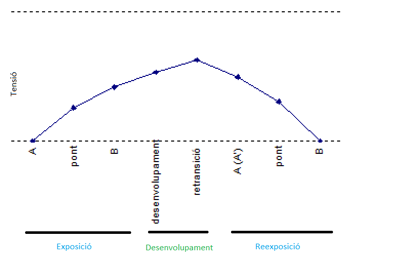 Graph showing the evolution of the tension in sonata form